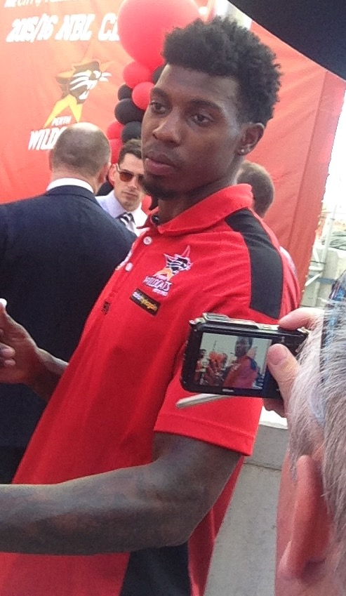 Casey Prather at the Perth Wildcats' championship ceremony at Forest Place, Perth